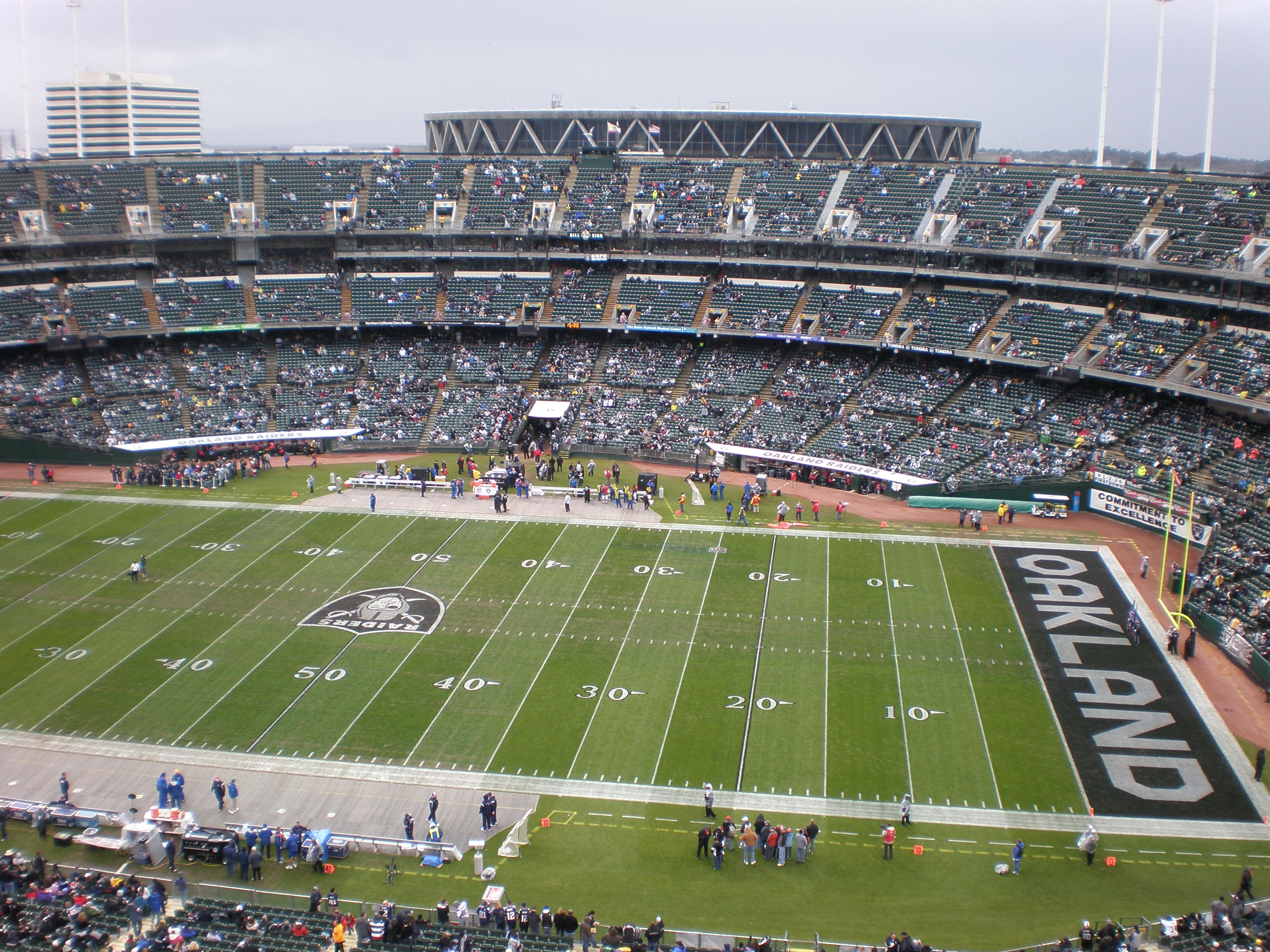 The Oakland-Alameda County Coliseum football field as seen from the high, eastern bleachers known as Mount Davis. Oracle Arena can be seen beyond the western bleachers.